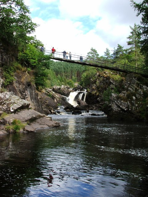 Rogie Falls Taken from down beside the River with the footbridge